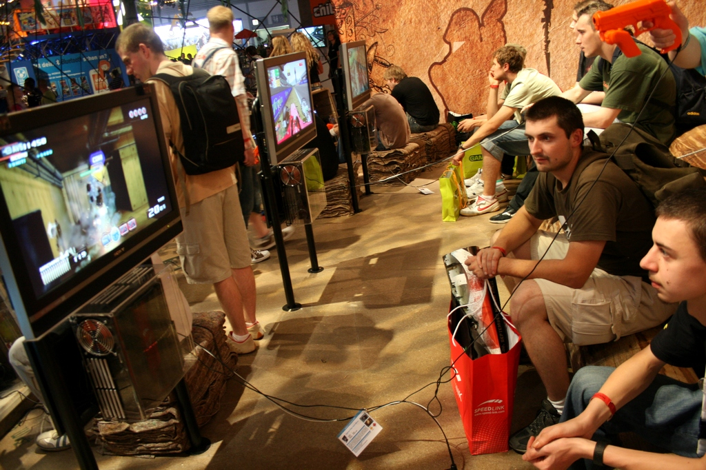 Take a look at the gun in the upper-right corner!